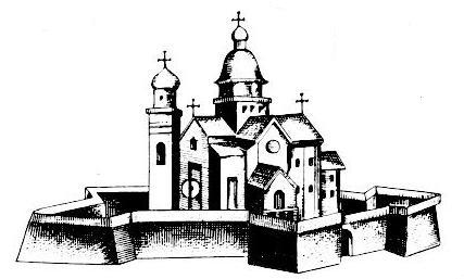 Church of Bernardine in Hlusk